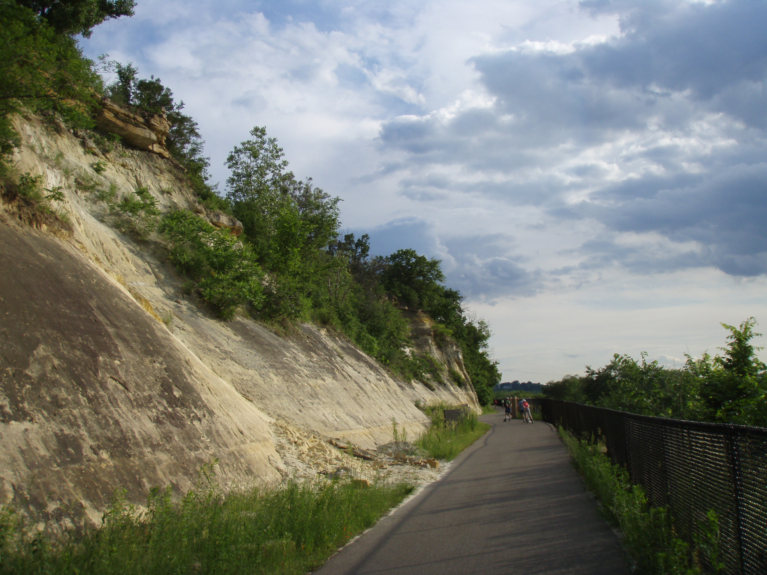 Big Rivers Regional Trail in Mendota, Minnesota. This trail climbs gradually above the Mississippi River until its confluence with the Minnesota River. The bluffs on the left are sandstone on the bottom, topped with limestone.